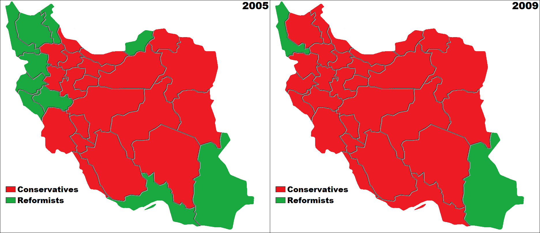 Comparison of 2005 and 2009 elections